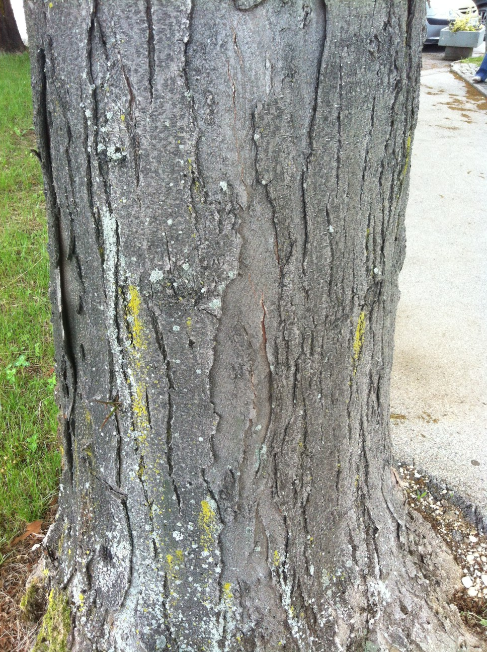 Lubje drevesa